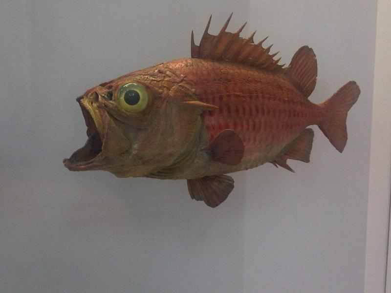 Brocade perch (Ostichthys japonicus) at the Natural History Museum in London, England.